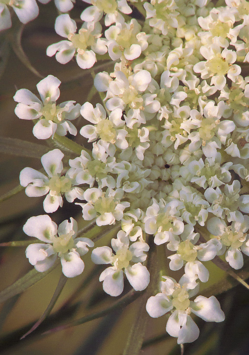 Daucus carota flowers, 'Napoli'